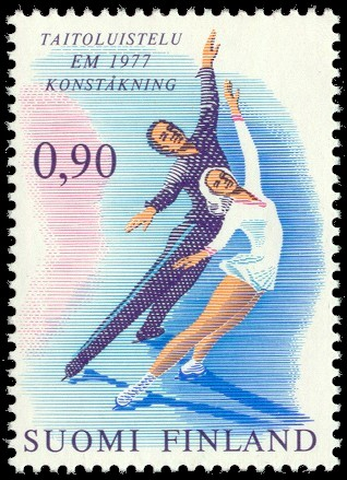 Postage stamp celebrating the 1977 European championships in figure skating